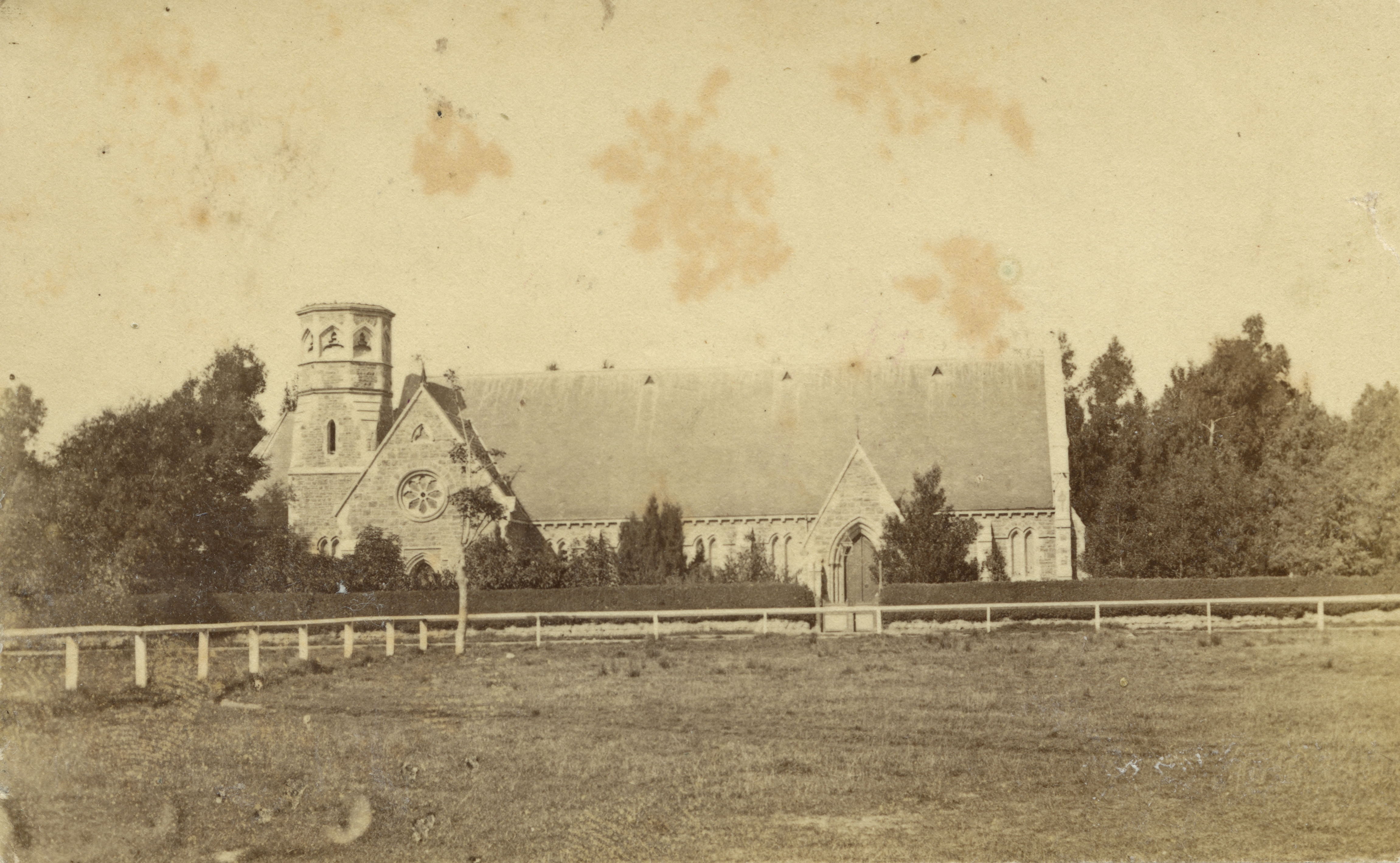 Photograph of St John's Anglican Church, Latimer Square, Christchurch